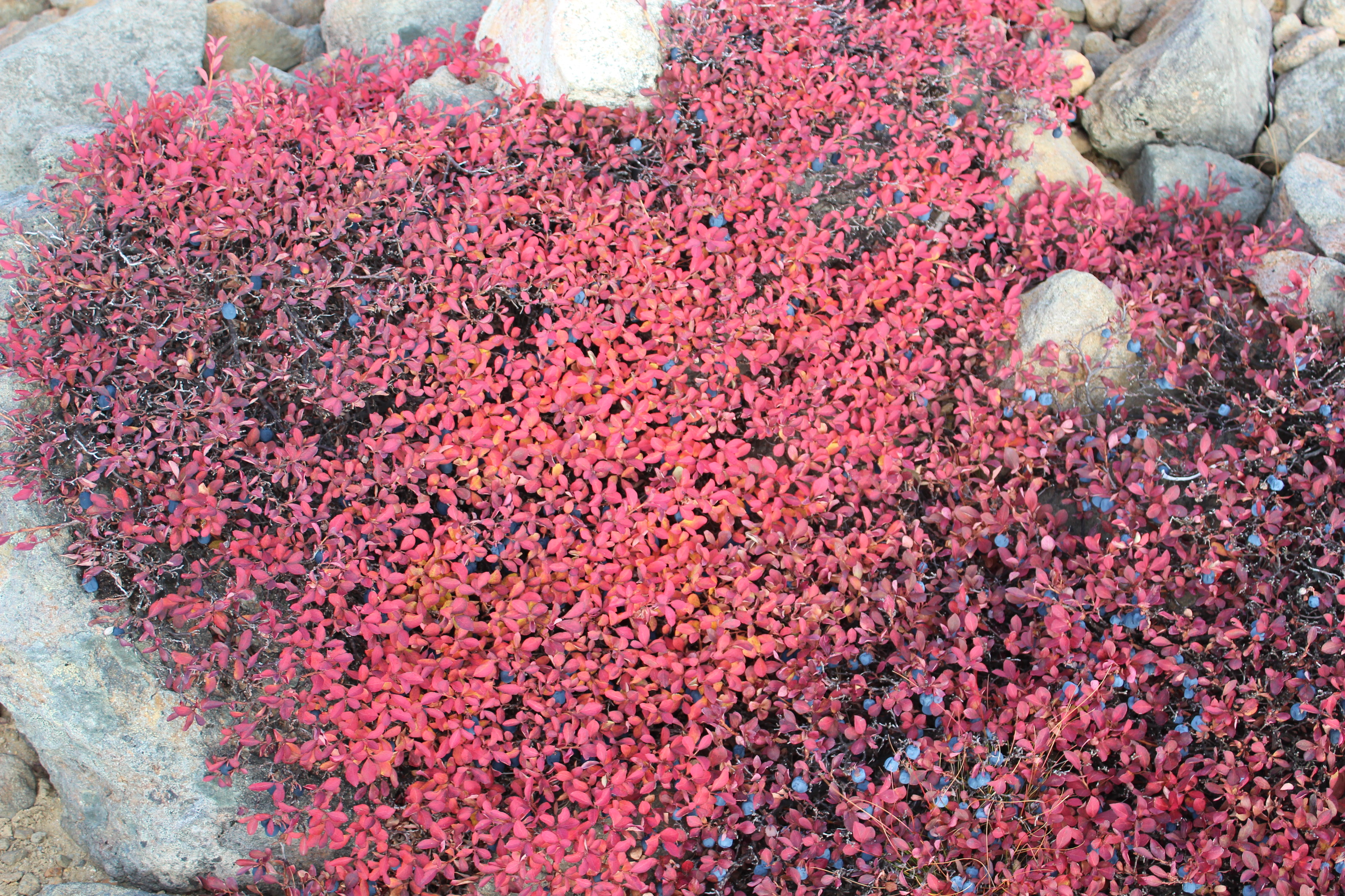 Vaccinium uliginosum (Bog Bilberry, Northern Bilberry), Autumn leaf color and Fruits in Mount Ontake